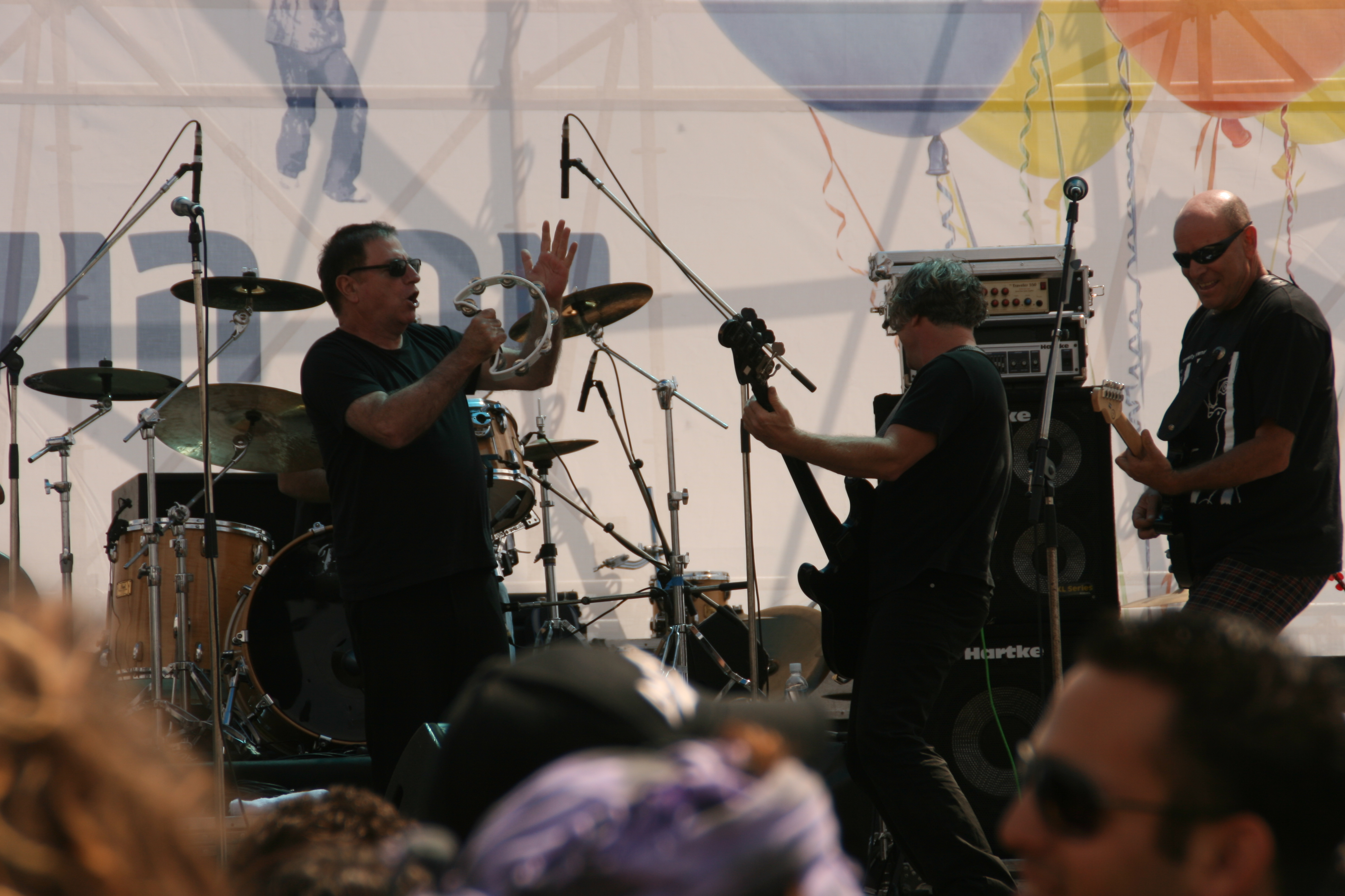 Tislam during a performance in Achziv bitch in celebration of 60 to Israel